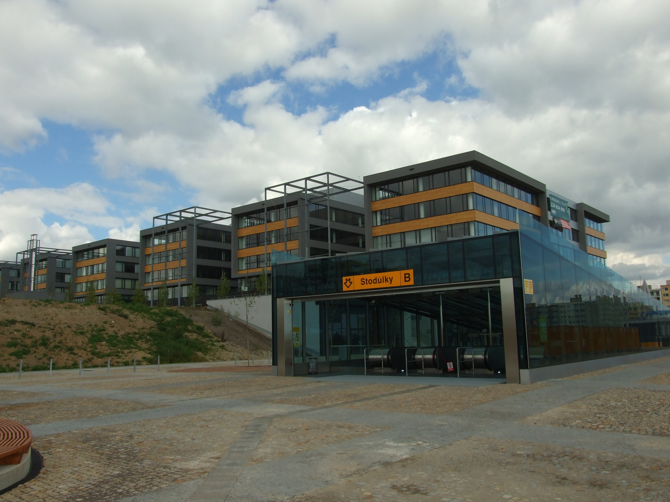 Western exit from metro station Stodůlky opened on 10th September 2010